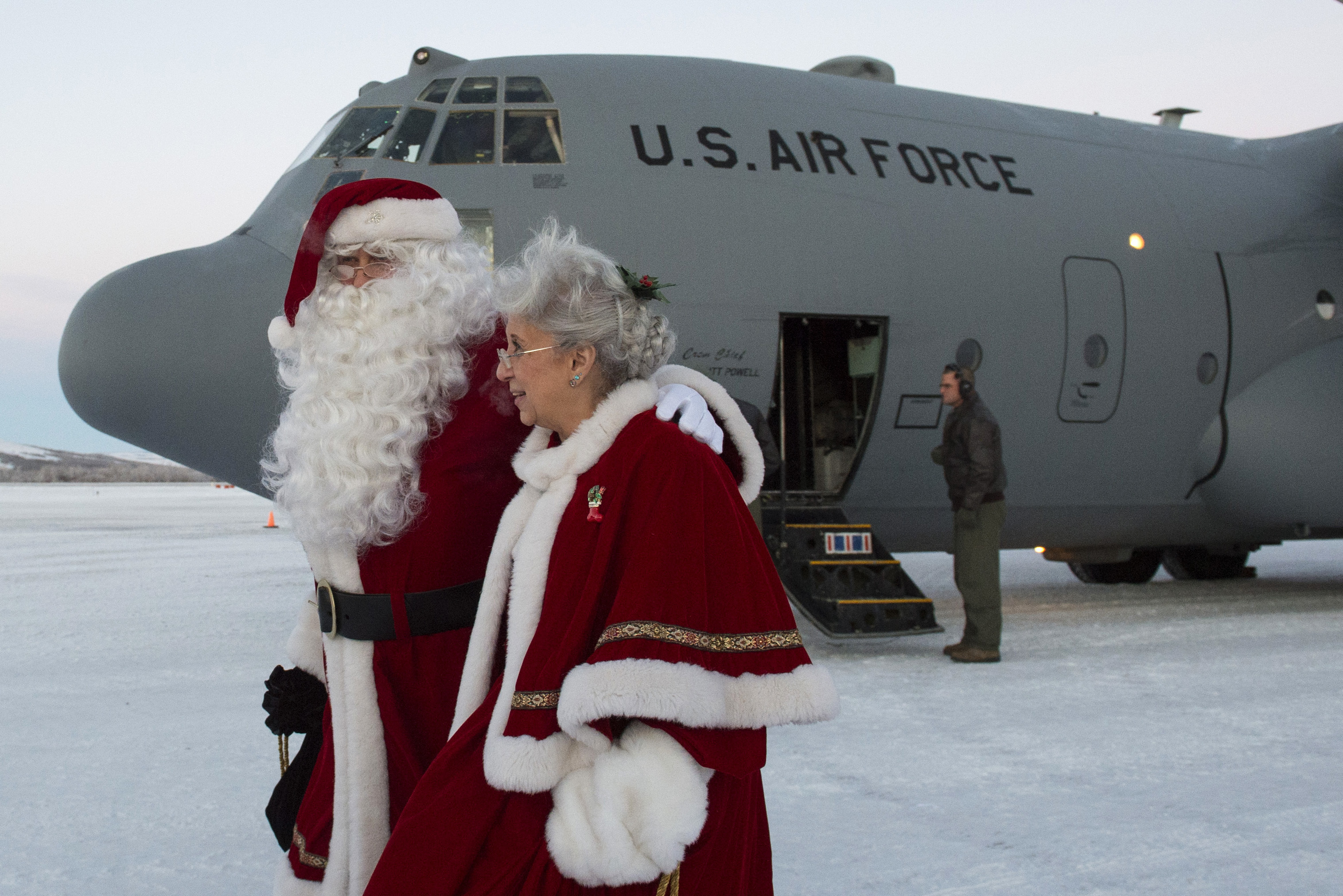 Volunteers exit a C-130H Hercules assigned to the 144th Airlift Squadron, Alaska Air National Guard at St. Mary's, Alaska, Dec. 5, 2015. This year marks the 59th year of the program, which serves to bring Christmas to underserved, remote villages across Alaska each year. (U.S. Air Force photo/Alejandro Pena)